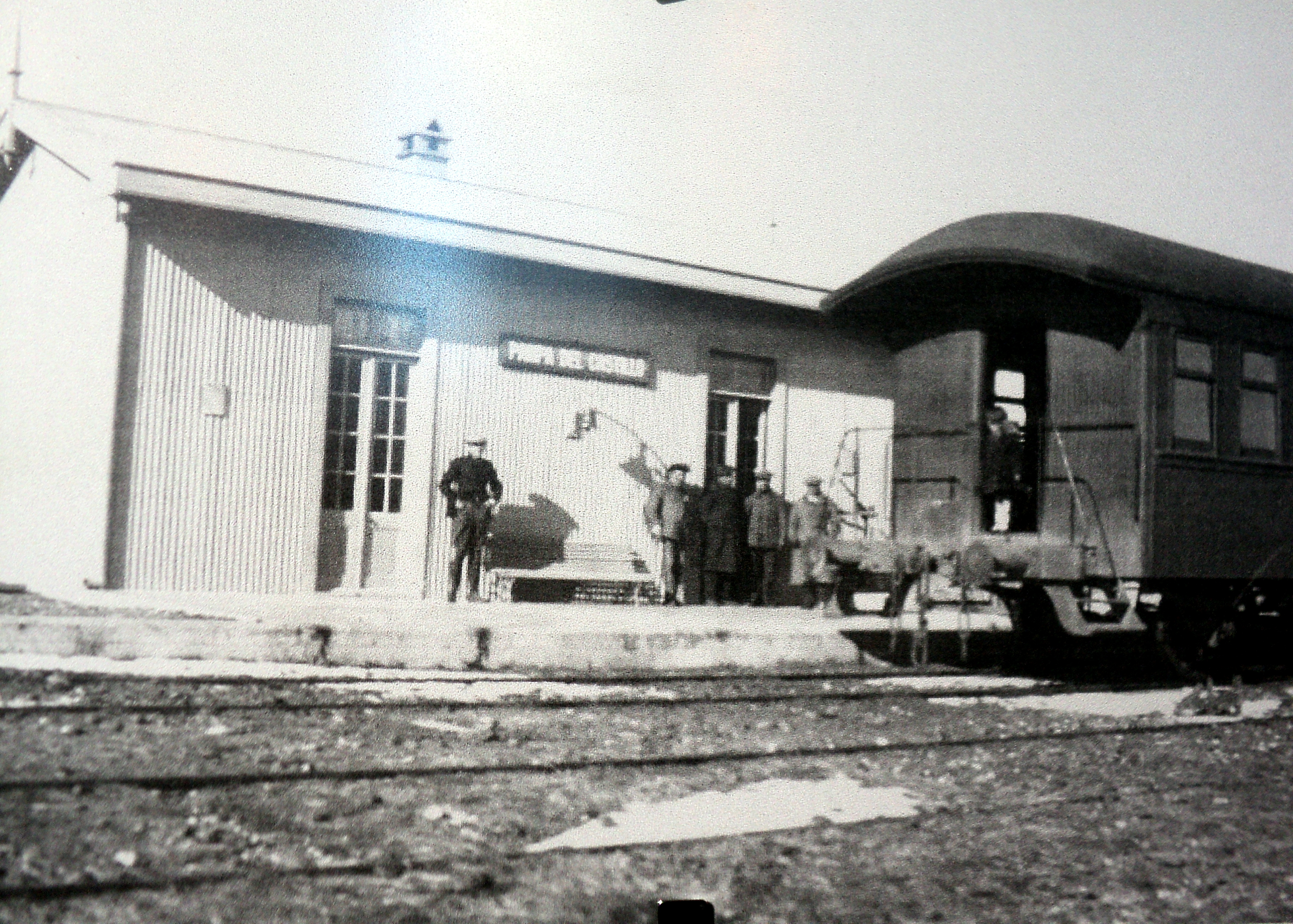 Passenger train stopped at Pampa del Castillo station of Comodoro Rivadavia Railway.